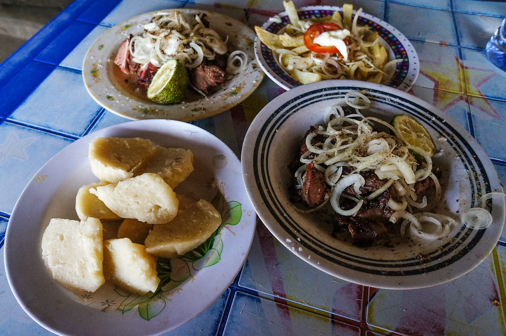 Grilled meat with cassava grits, Burundi This is an image of food from Burundi